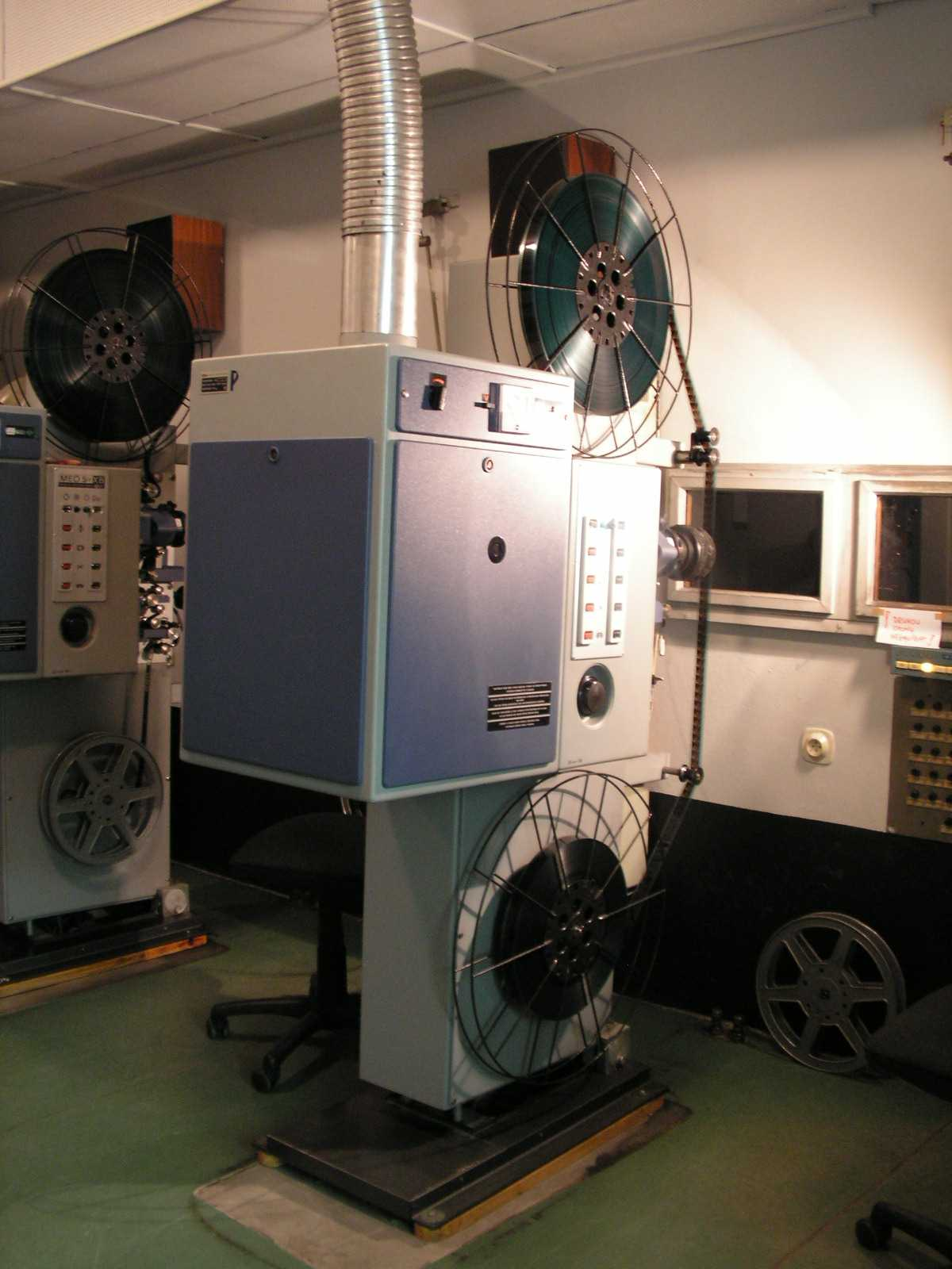 Czechoslovak cinema projectors Meo 5X-B in the standard situation between finishing the first and starting the second projection.